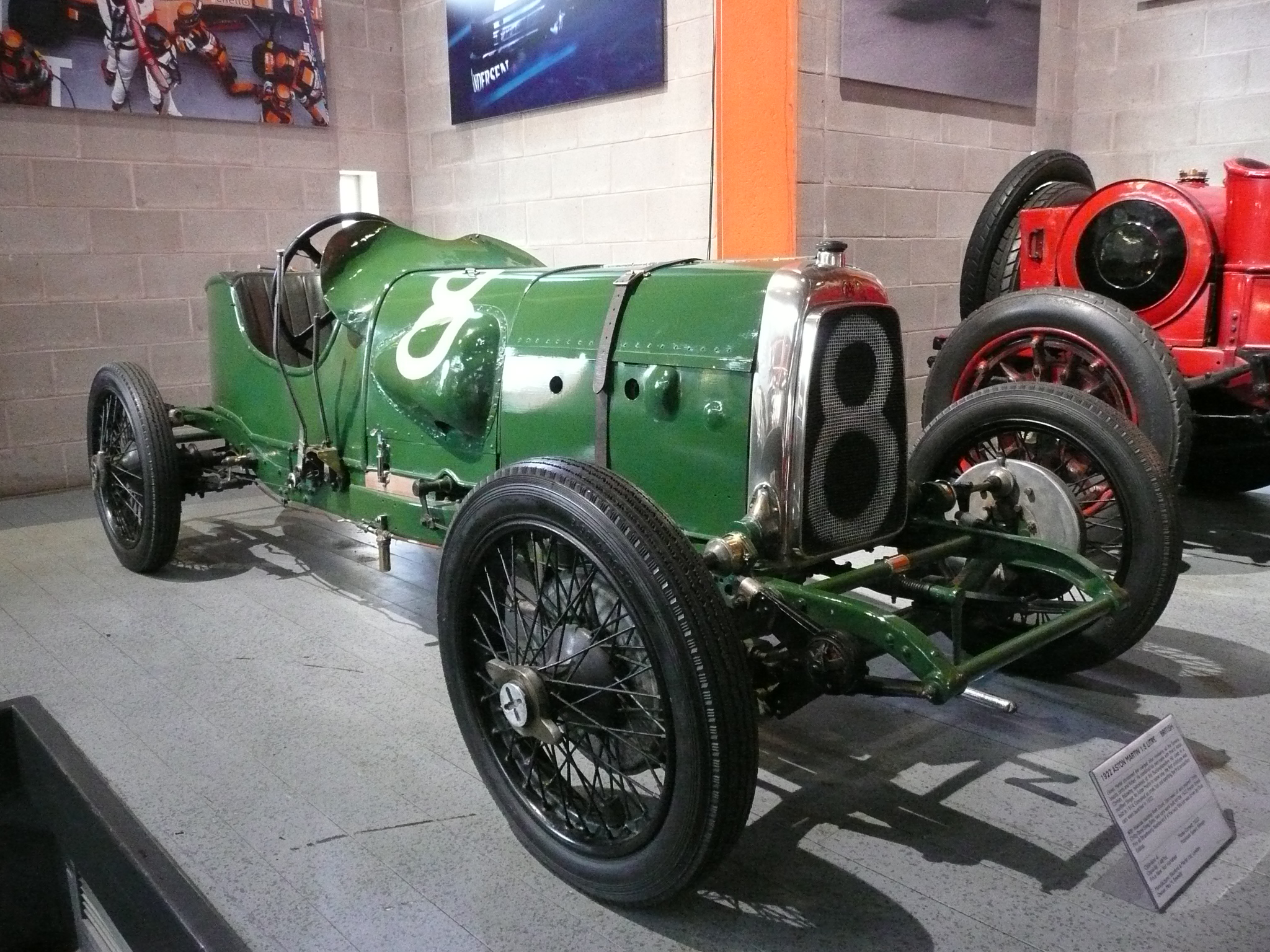 1922 Aston Martin, National Motor Museum in Beaulieu.